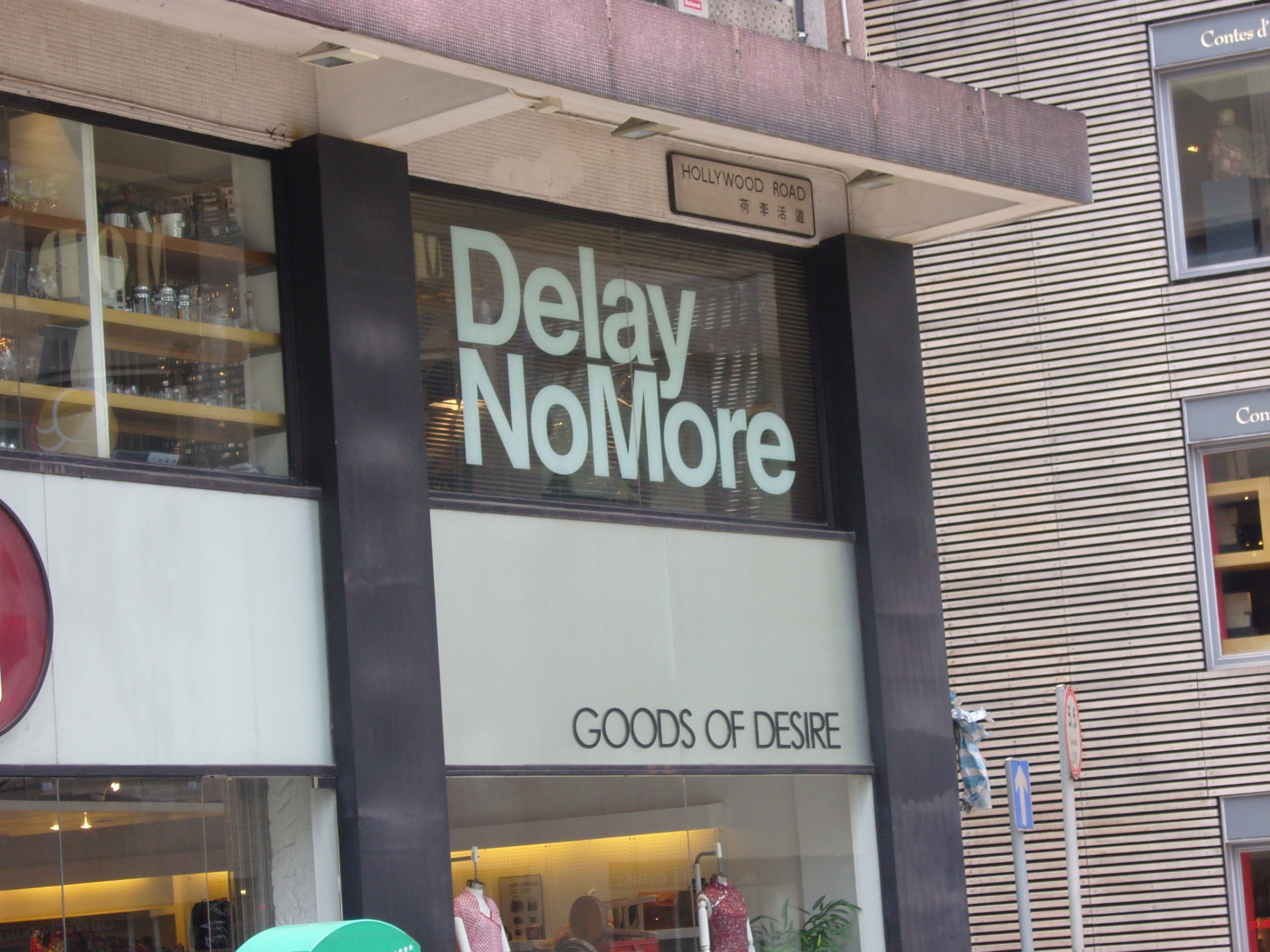 Delay No More at Hollywood Road near Graham Street and Lyndhurst Terrance in Central of Hong Kong